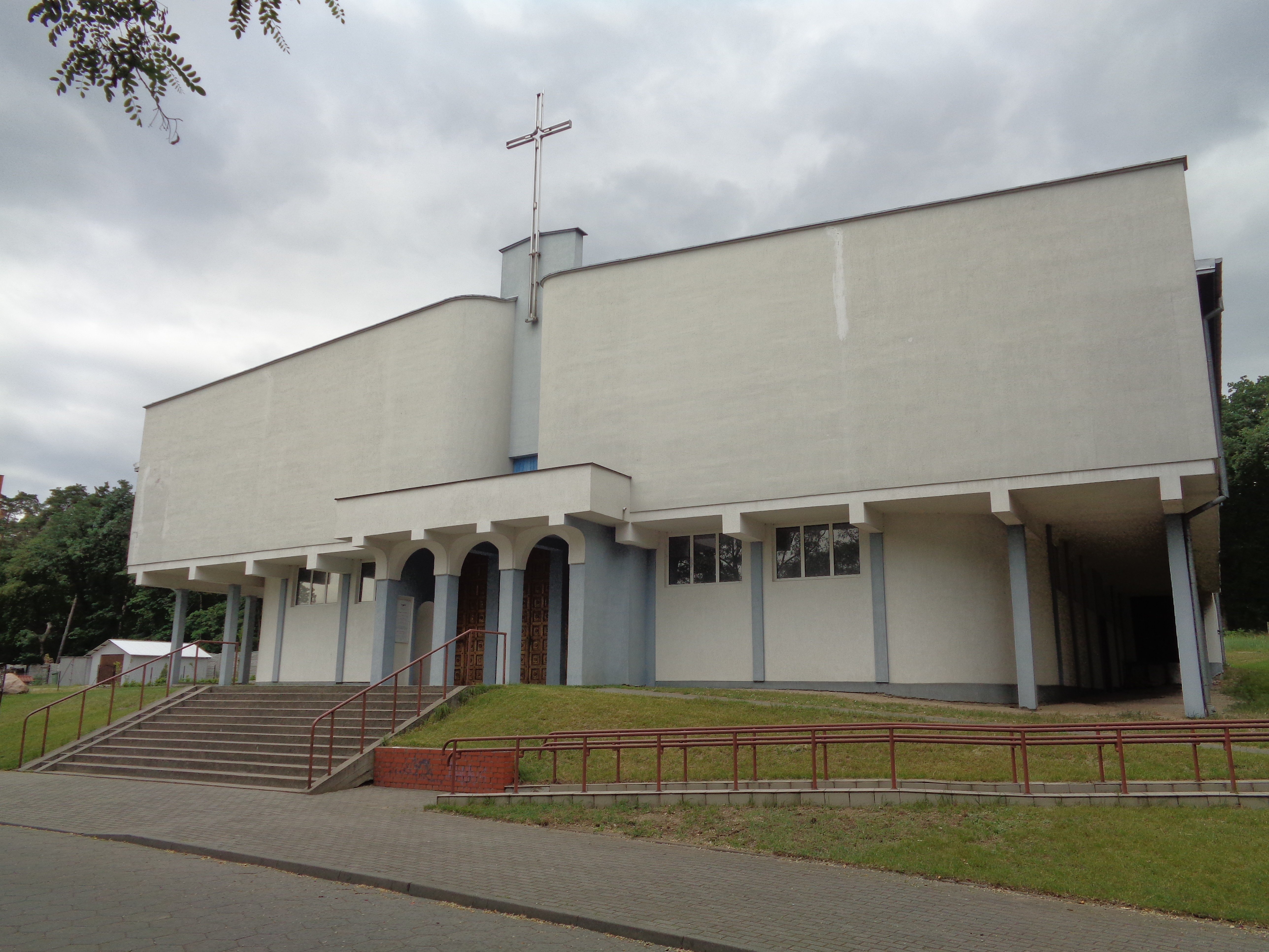 Church of the Saintest Mary Queen of Poland at Krokusowa street on Zawiśle district in Włocławek.